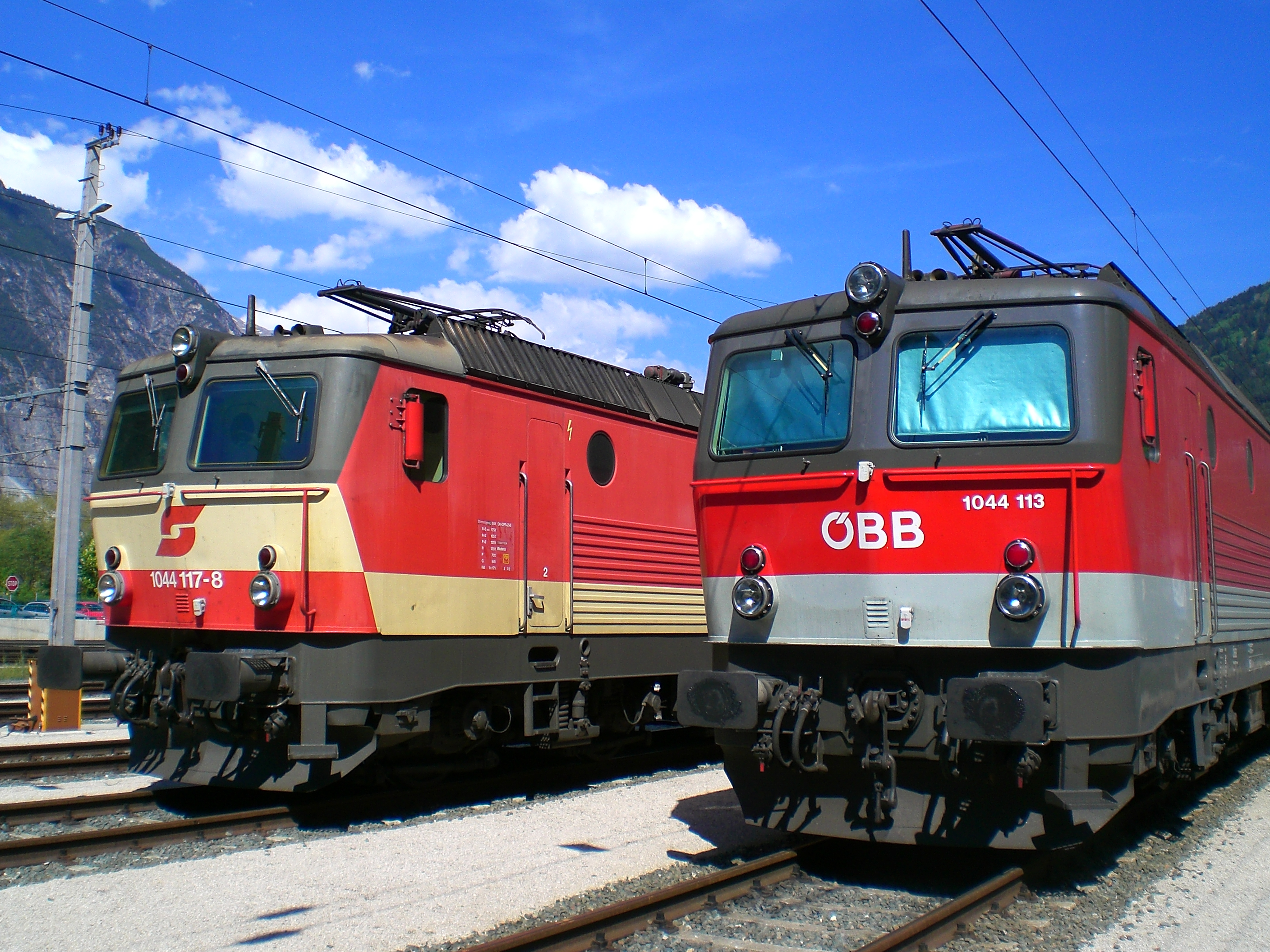 ÖBB 1044 117-8 with "chessboard varnish" and 1044 113-7 with new logo in Landeck-Zams, Austria